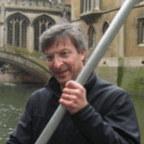 Picture of Charles Epstein punting on the river Cam in Cambridge. The picture was taken privately.